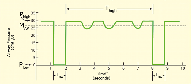 This is a pressure-time graph of a typical airway pressure release ventilation (APRV) mode.